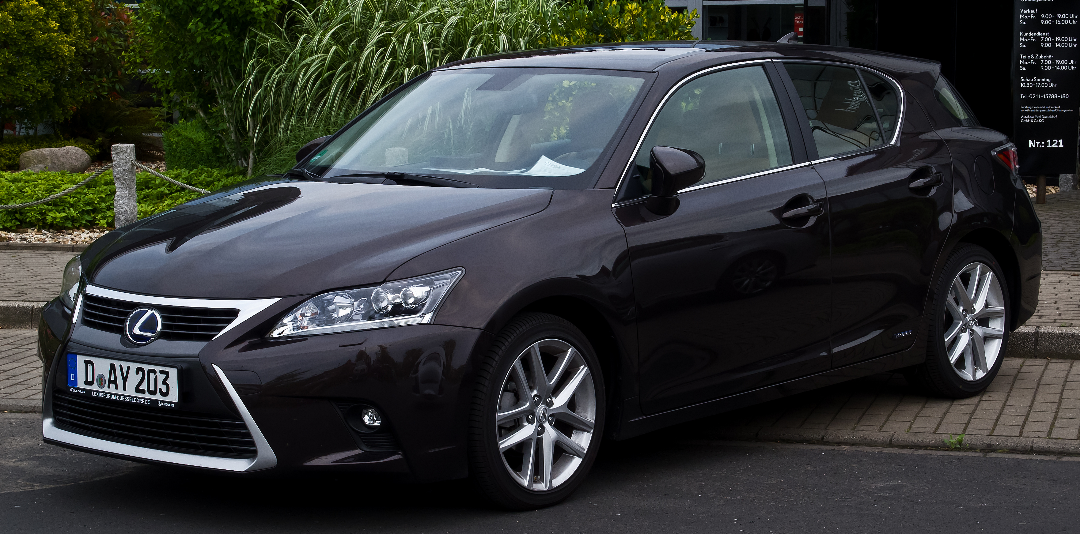 Lexus CT 200h Luxury Line (ZWA10, Facelift)